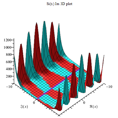 Si(x) Im complex 3D plot